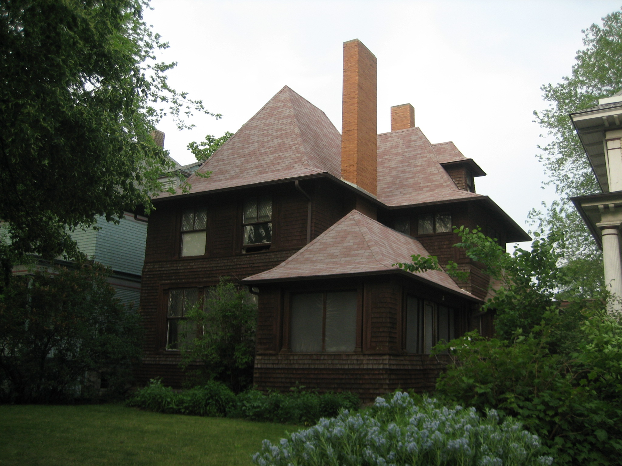 The George W. Smith House, designed by Frank Lloyd Wright in 1895, built in 1898 and located in the Chicago suburb of Oak Park, Illinois. Contributing property to the Ridgeland-Oak Park Historic District listed on the U.S. National Register of Historic Places